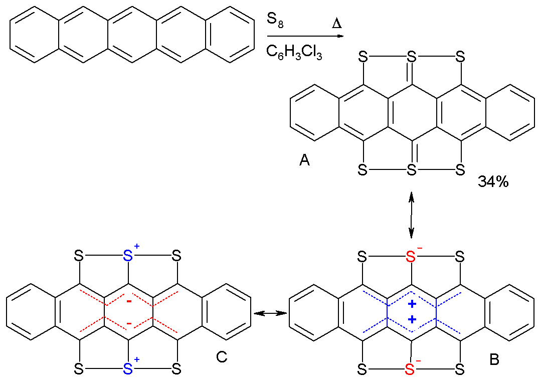 Hexathiapentacen